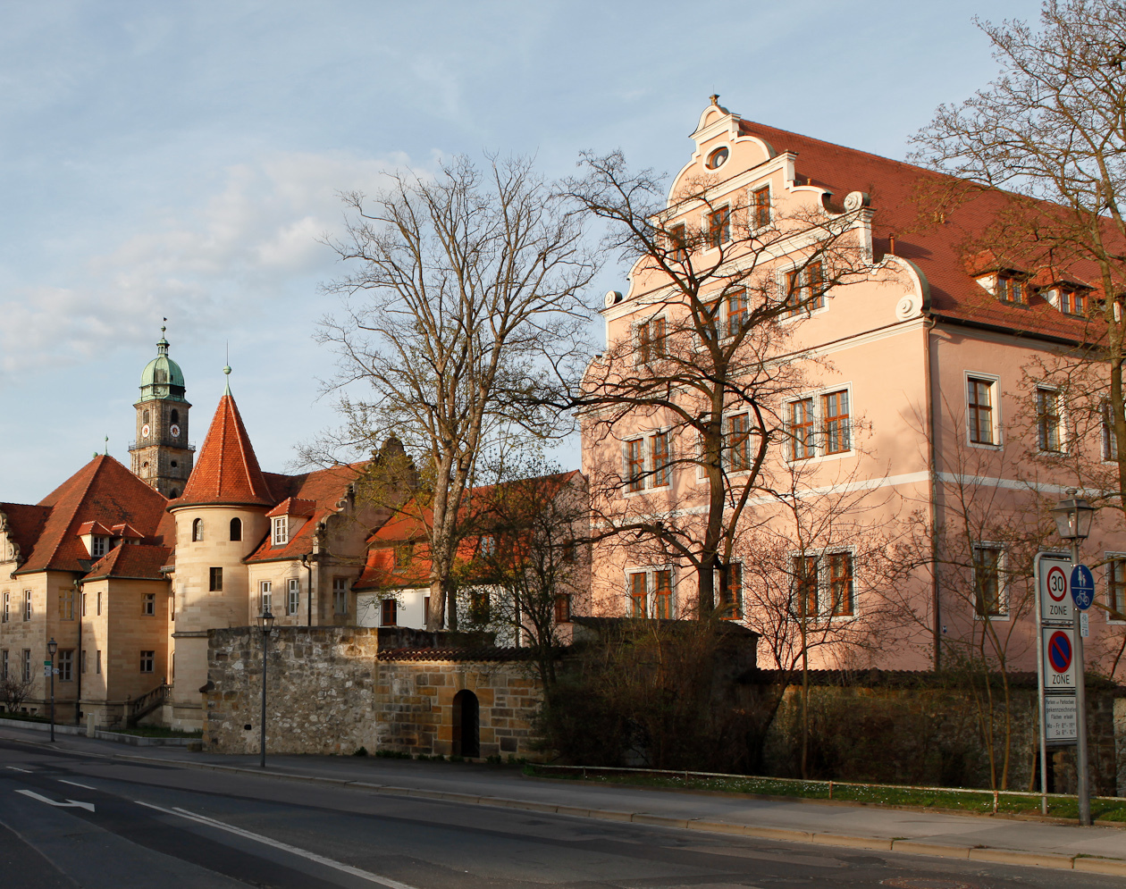 This is a photograph of an architectural monument.